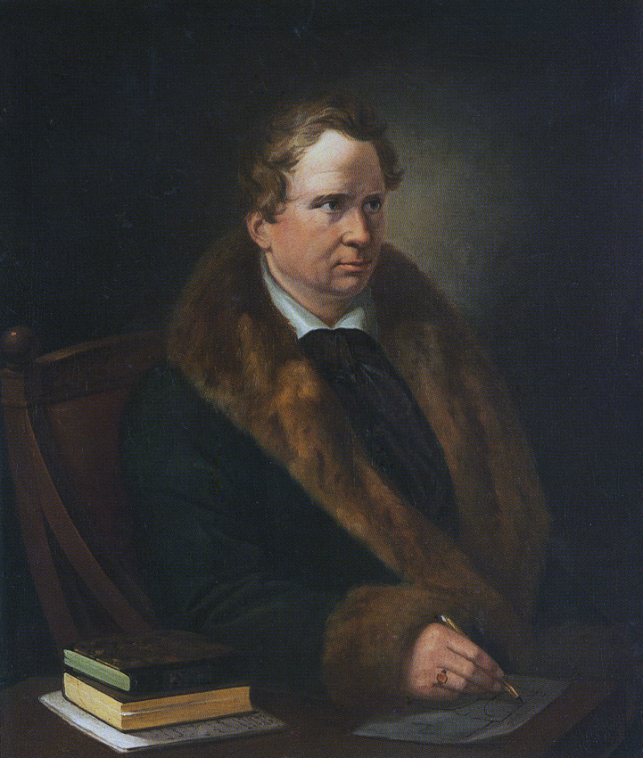 Jacob Ephraim Polzin (1778–1851), neoclassical architect from Labiau (East Prussia), worked mainly in Bremen, Germany.